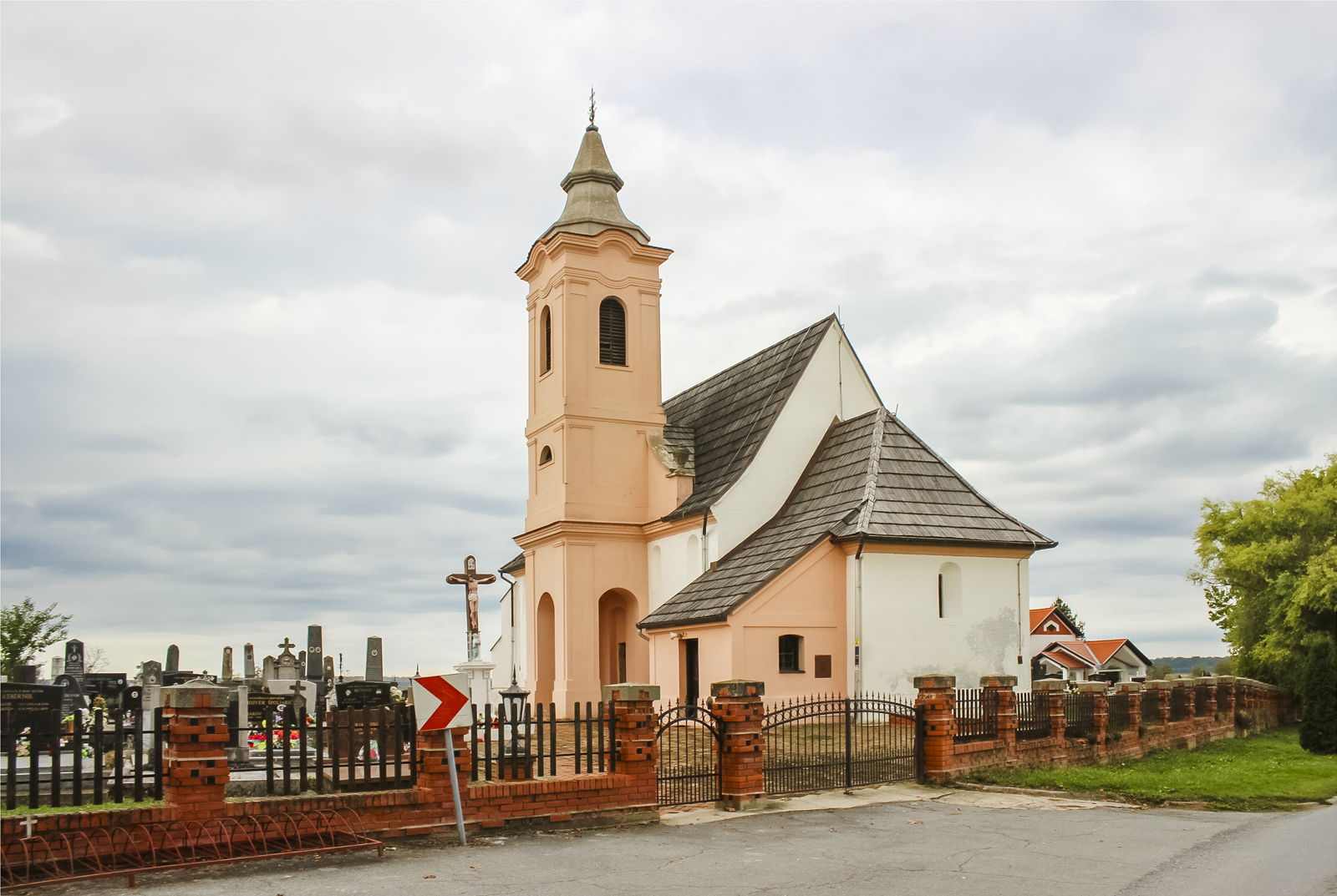 Koška church